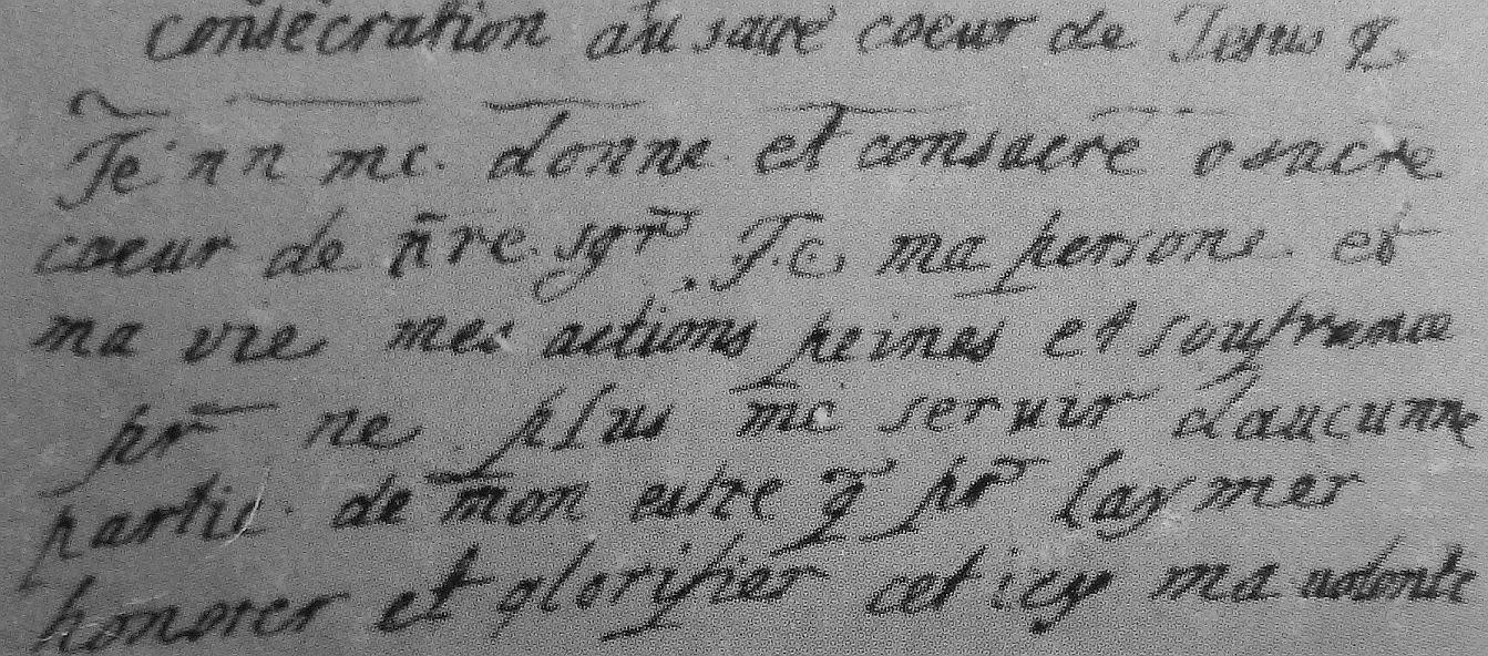 Act of Consecration to Sacred Heart of Jesus (fr. la petite consécration). Autograph of st. Margaret Mary Alacoque. First words.